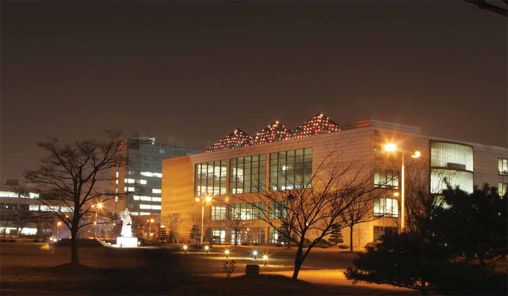 KAIST Digital Science Library